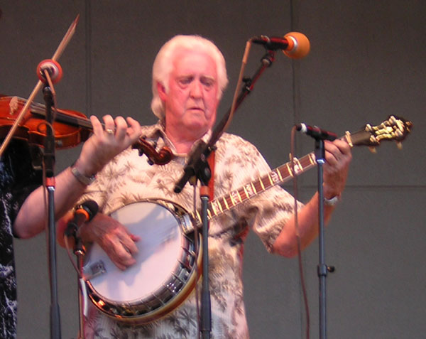 Picture of J. D. Crowe performing at South Park in Pittsburgh, Pennsylvania, on August 8, 2008.